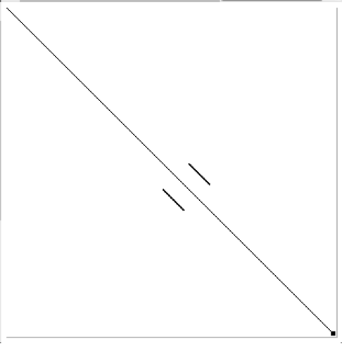 This is a dot matrix comparing the genetic sequence of CCDC120 to itself. A 120bp repeat is the most notable visible feature. The Image was created using dotlet (